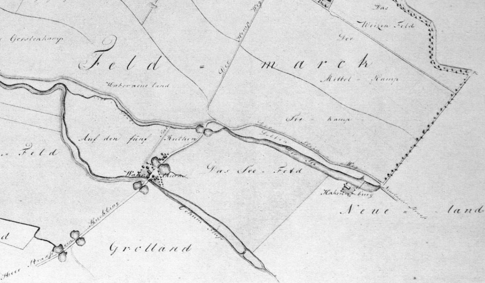 Road from the edge of Bremen's Neustadt to the Bremish village of Huchting in 1897, crossing Ochtum river at the Warturm